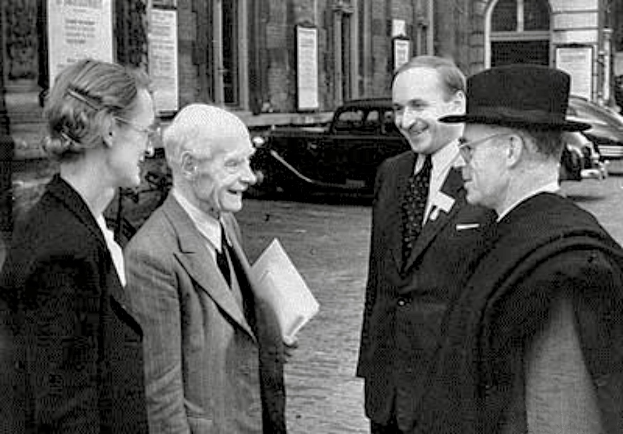 WCC Assembly, Amsterdam, 1948